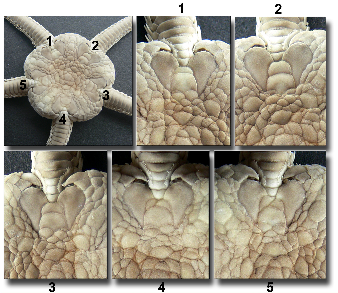 Ophiura (sp ?), on the sand shore of Oye-Plage (near natural reserve), north of France